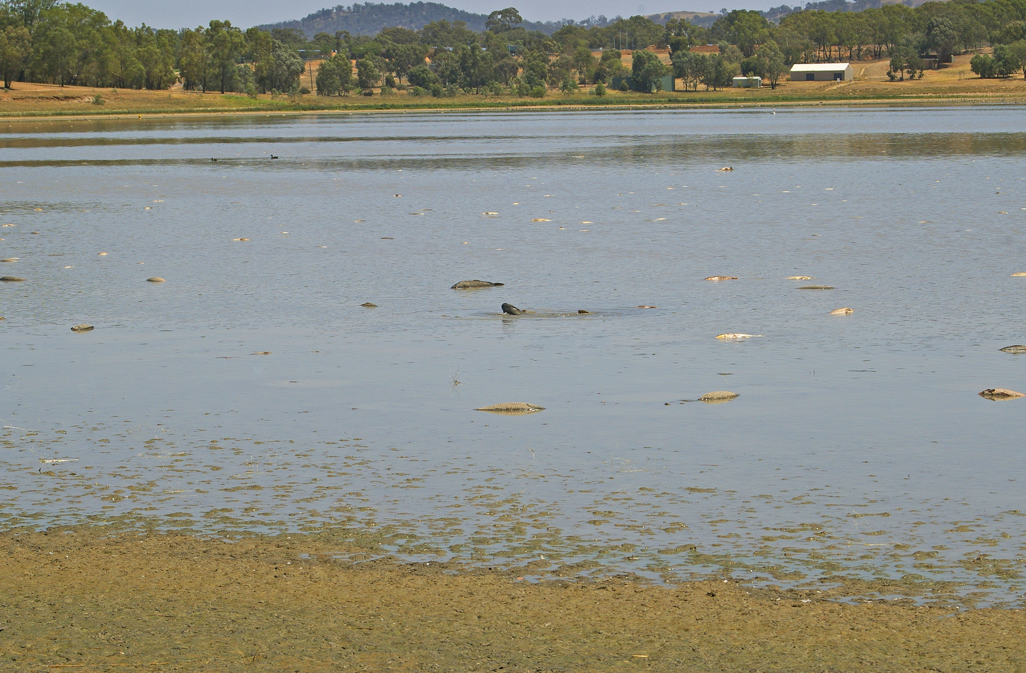 Dead and dying Cyprinus carpio carpio (European carp) in Lake Albert.